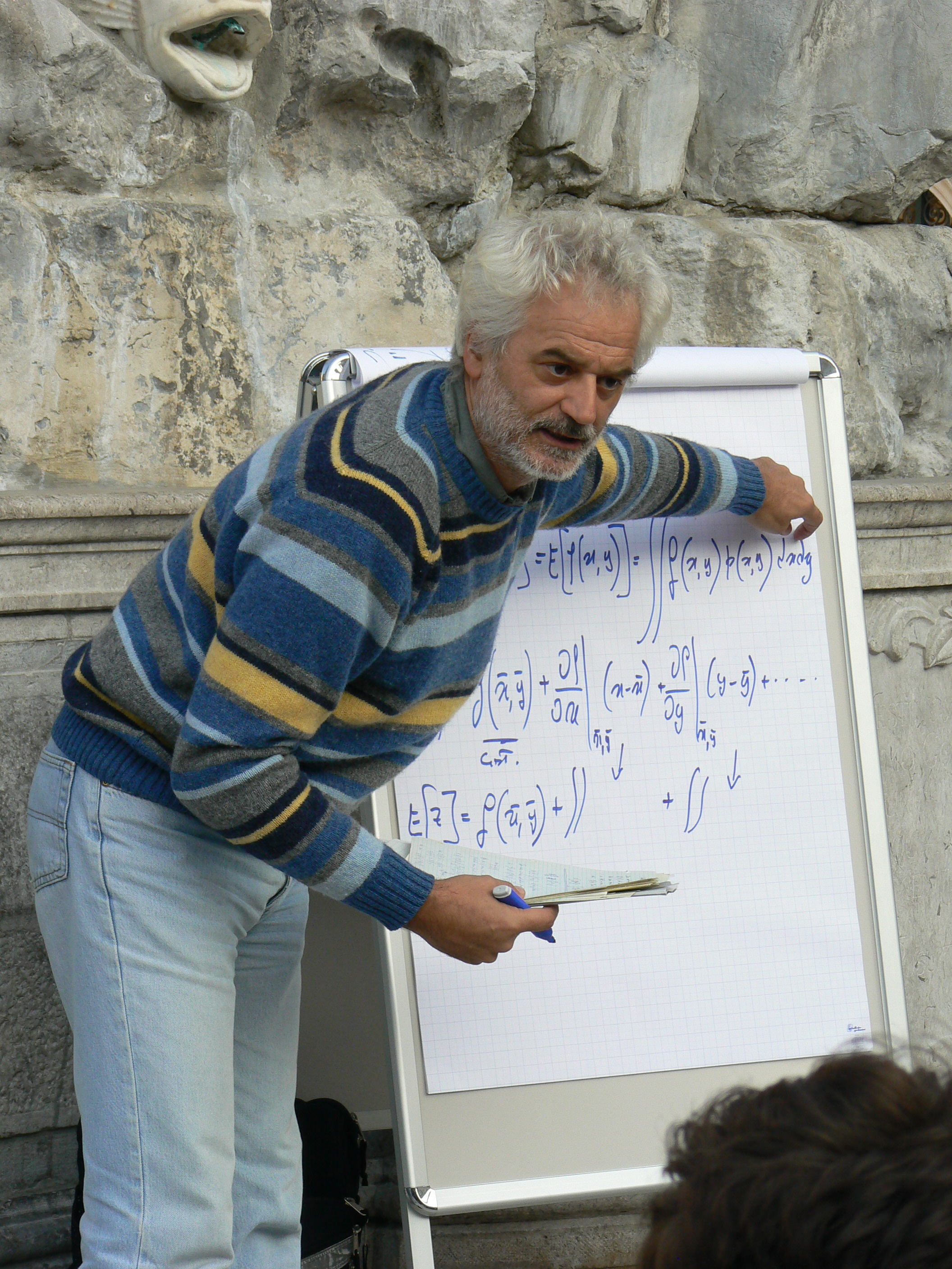 Teaching maths in the Piazza dell'Unità d'Italia in Trieste